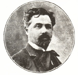 E. Agnouni (Khachadur Maloumian)